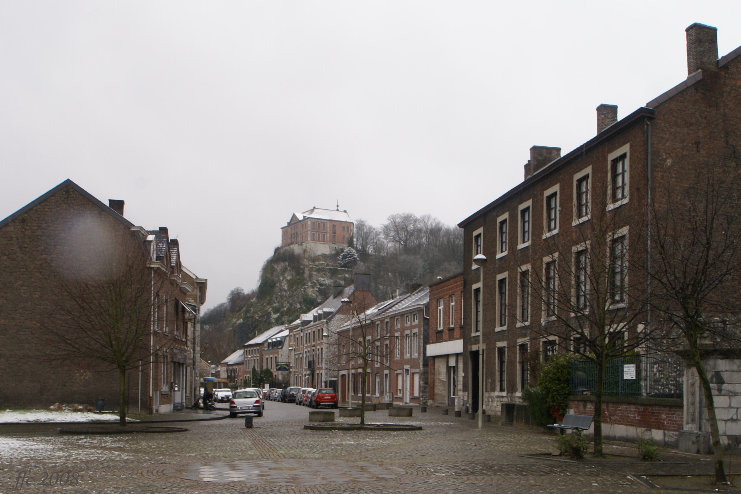 Chokier (Belgium) The town and the castle Vue du village dominé par le château El poble i el castell Het dorp en het kasteel